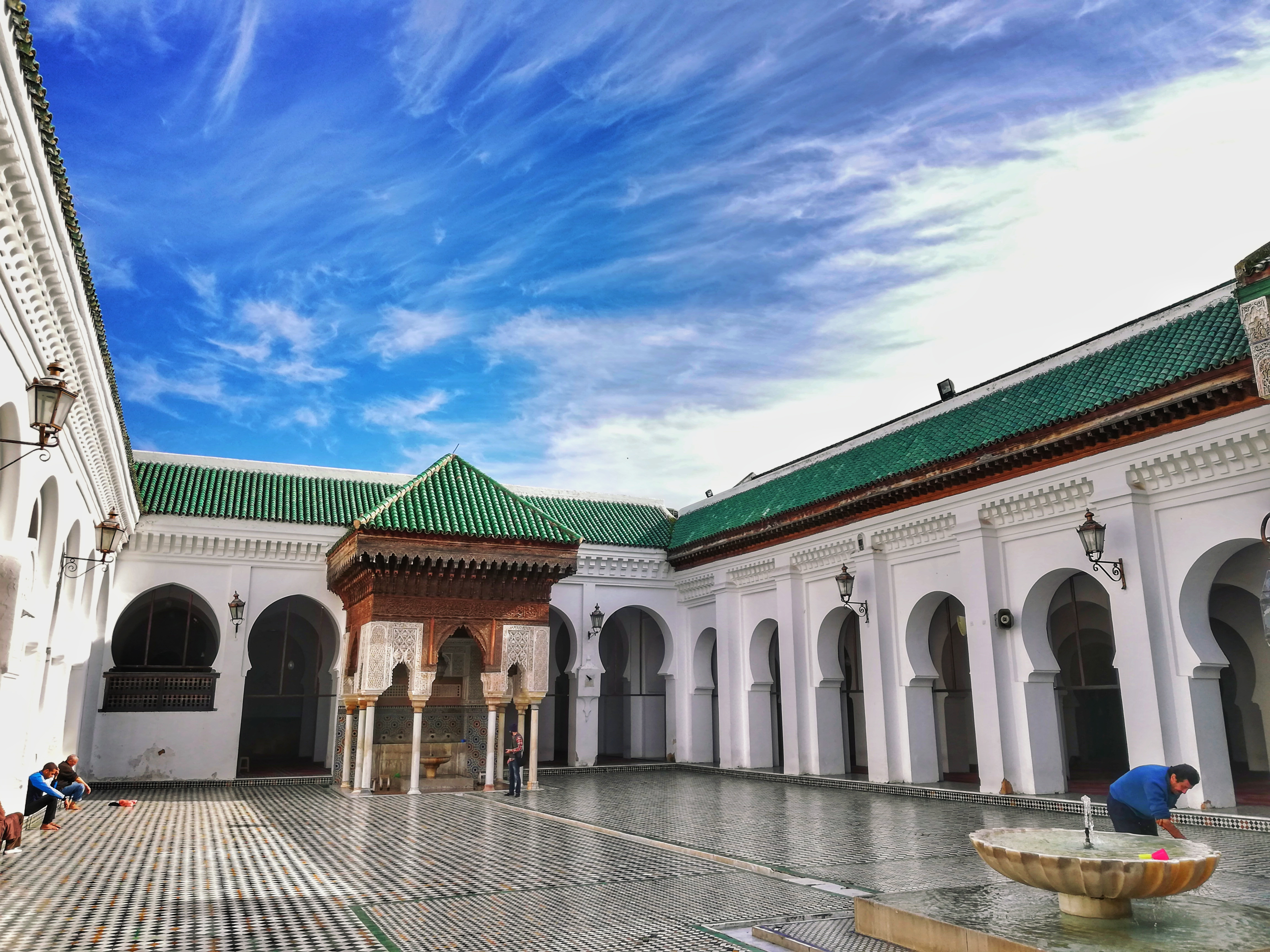 The first university of the world This is an image with the theme "Play" from: Morocco